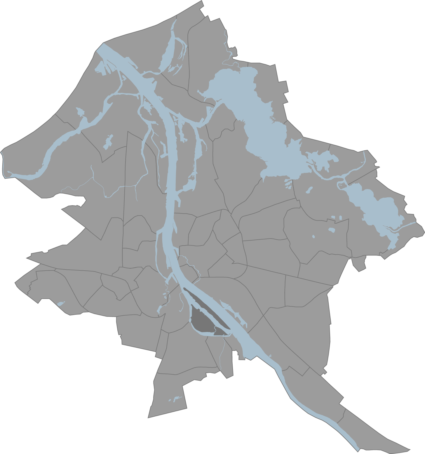 A map of Riga, Latvia with the eponymous commune highlighted